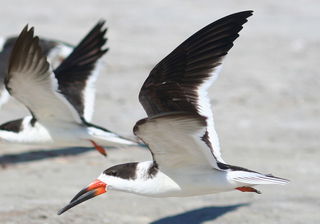 This is about as close to a Black Skimmer (Rychops niger) as I've ever gotten.